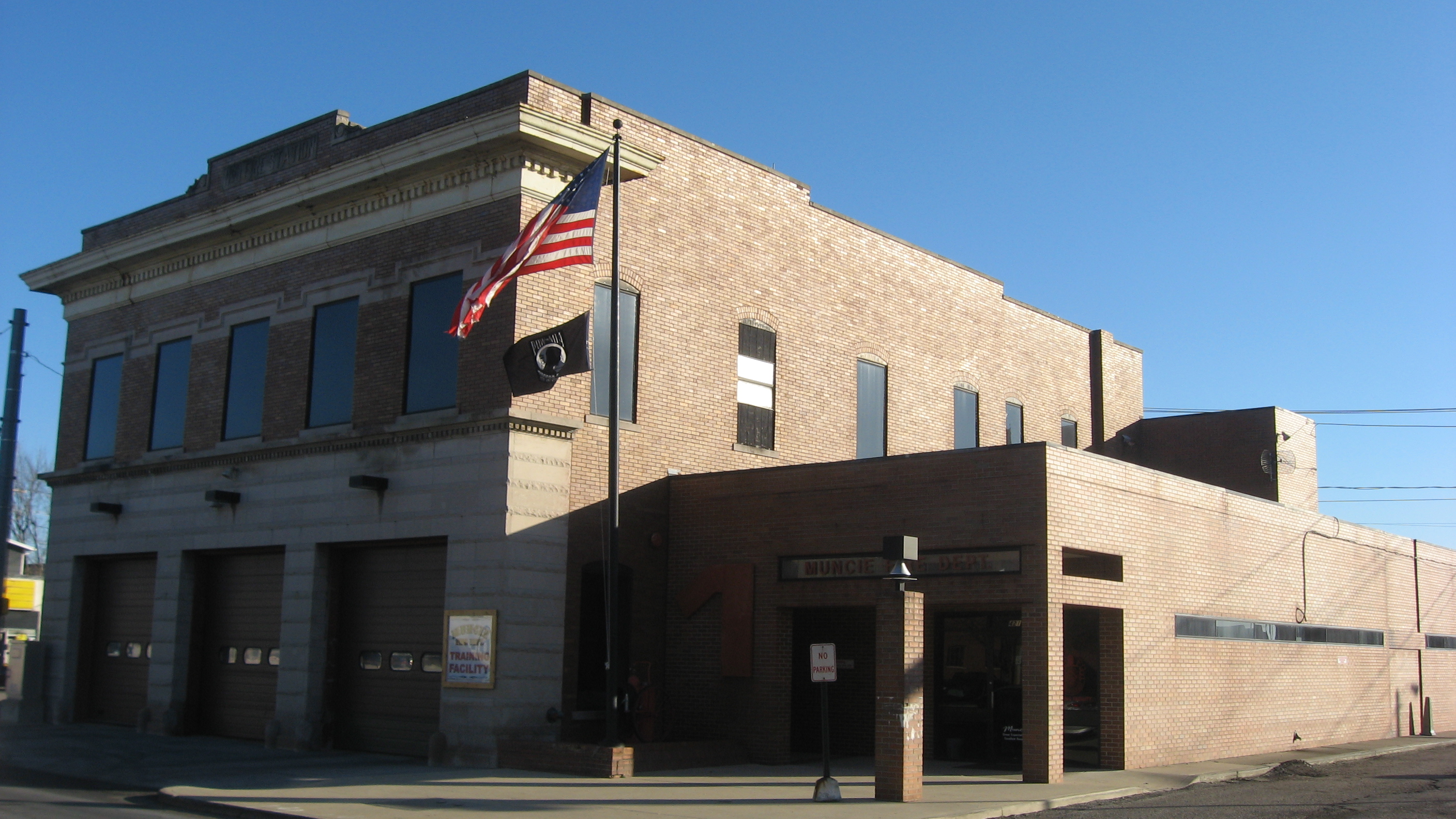 Front and western side of Fire Station No. 1, located at 421 E. Jackson Street (State Road 32) in Muncie, Indiana, United States. Built in 1913, it is listed on the National Register of Historic Places.